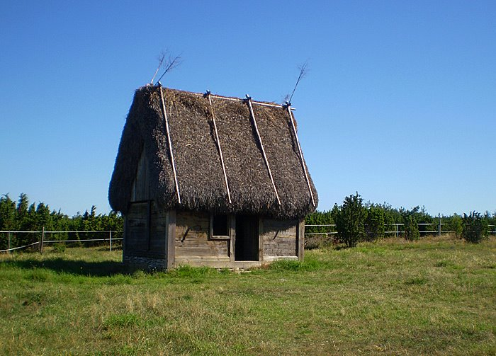 A shelter on Fårö, Gotland in Sweden. A small house and shelter for animals (sheep).